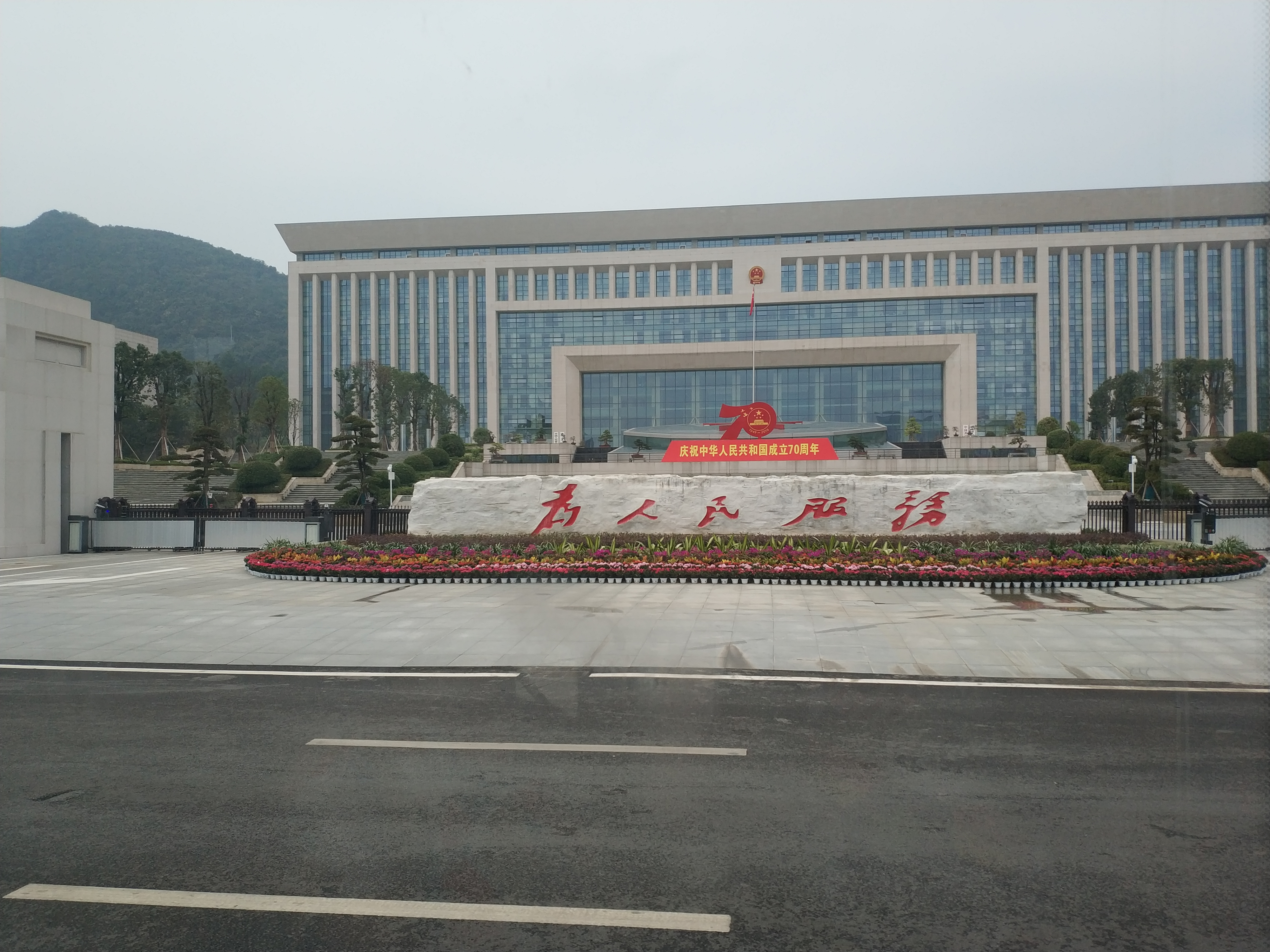 位于遵义市新蒲新区的新政府办公大楼，摄于中华人民共和国国庆节(2019)